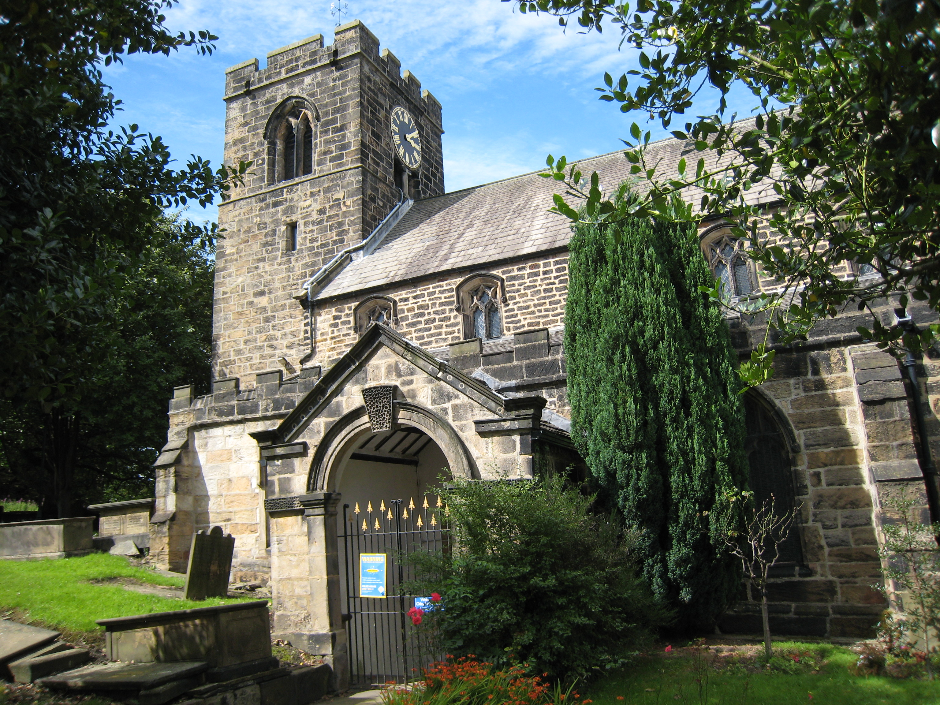 All Saints Parish Church, Kirkgate, Otley, LS21. Exterior main entrance and tower.